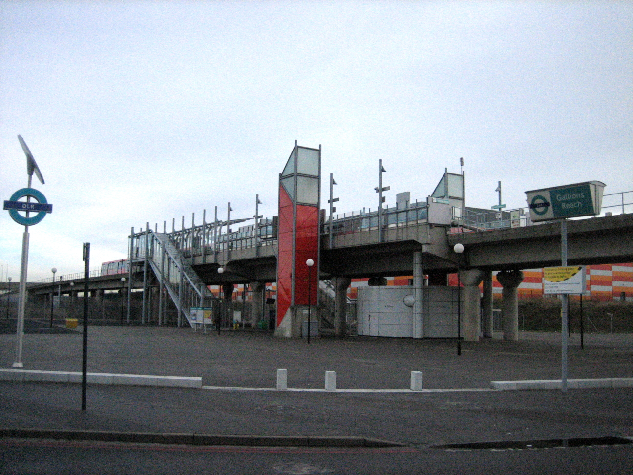 Gallions Reach DLR station